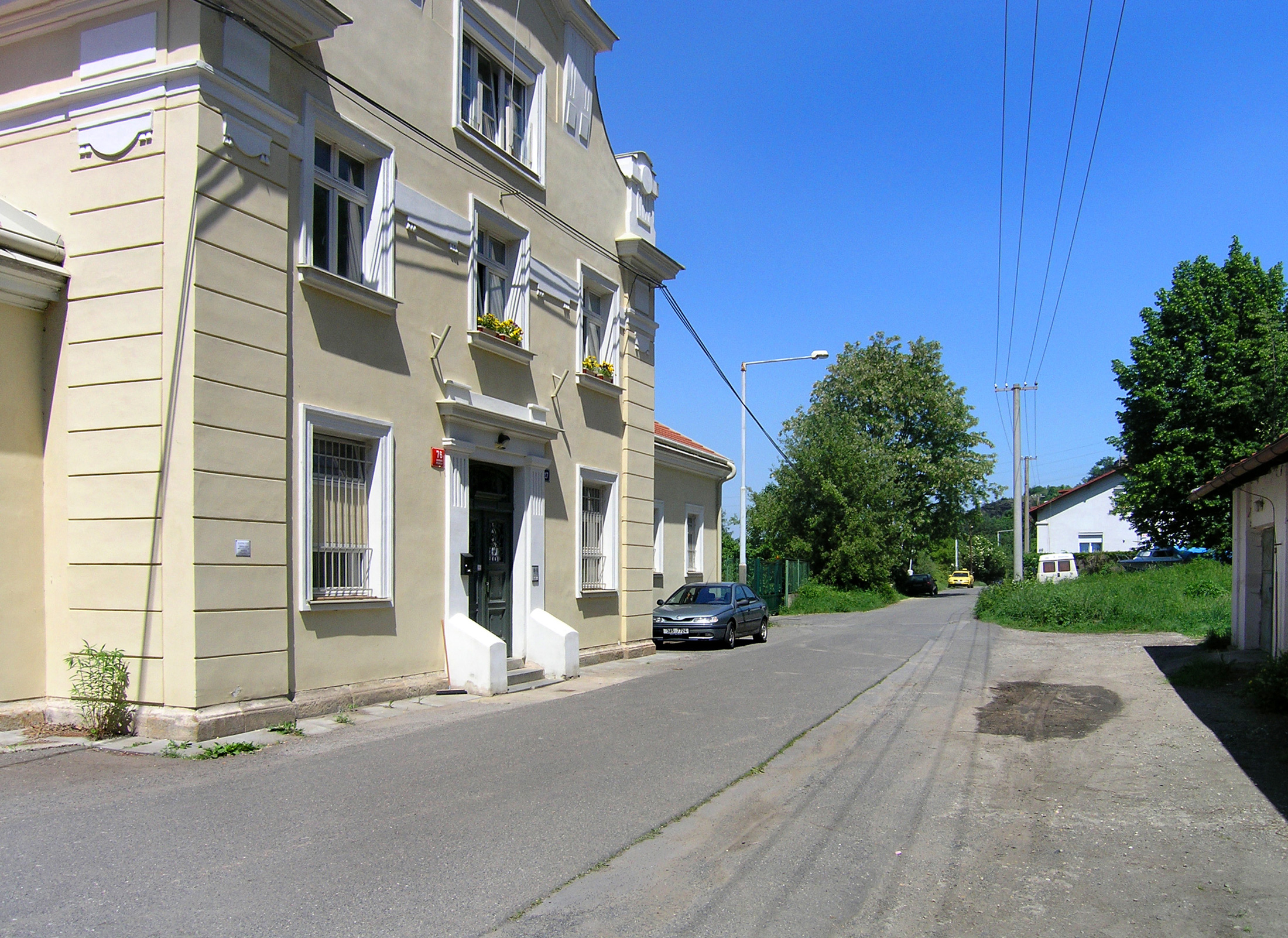 V Zámcích street in Bohnice, Prague